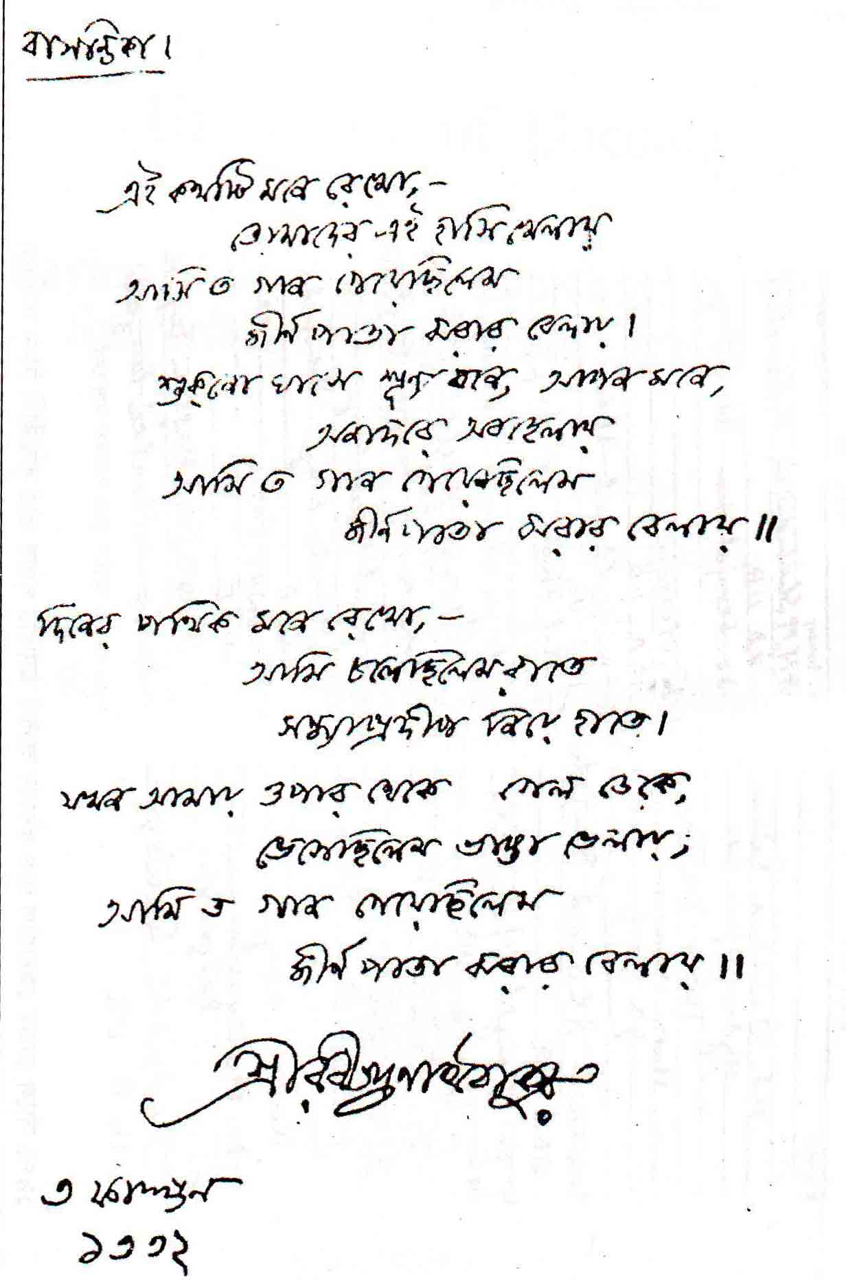 Poem written by Rabindranath Tagore himself for the weekly magazine of Jagannath Hall, University of Dhaka "Bashanti" during 1926